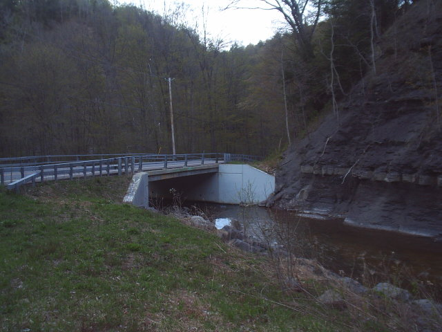 New York State Route 171 crossing over a river in Frankfort, New York.